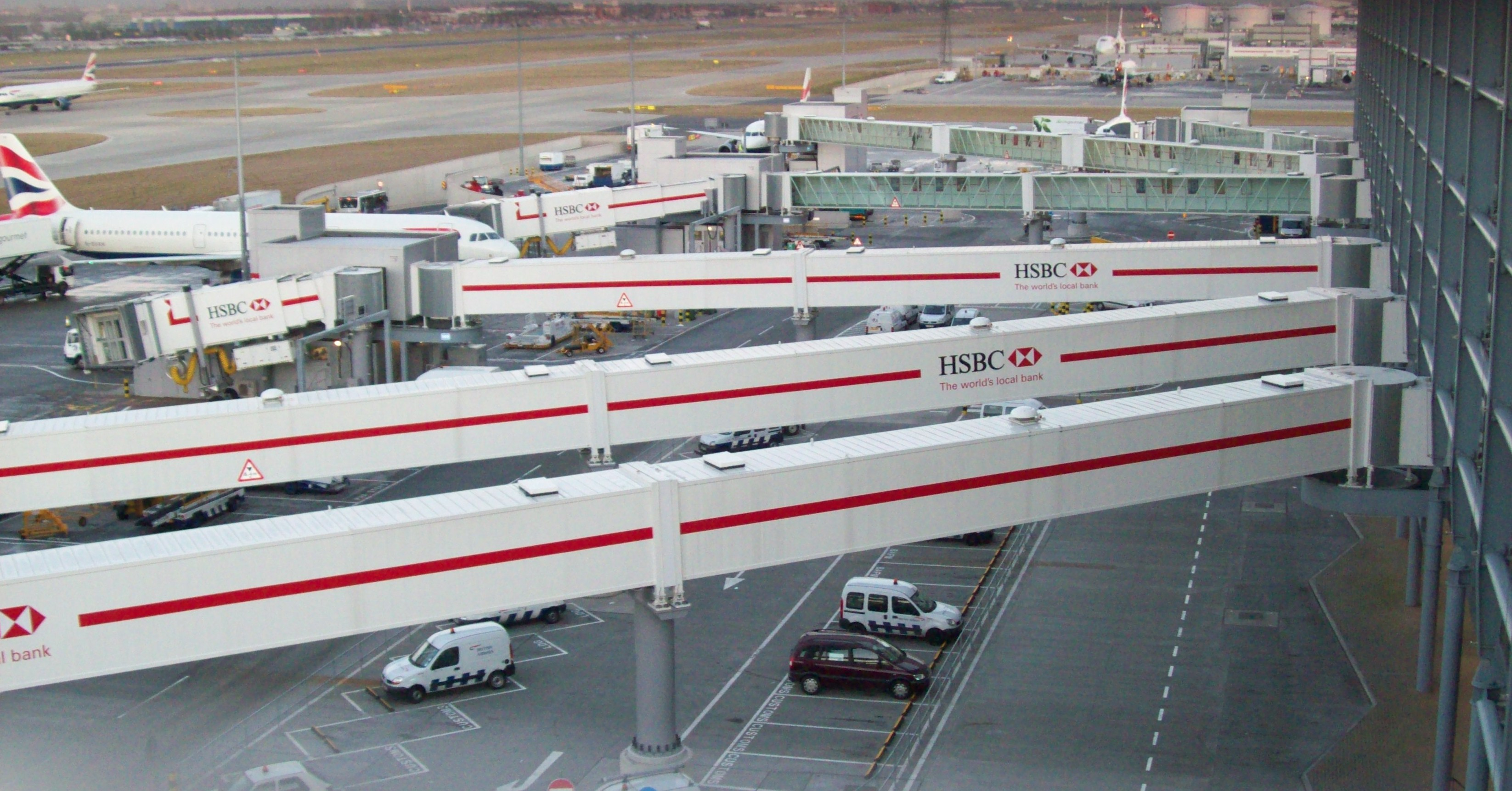 Heathrow Terminal 5A building (side view) showing aircraft stands and airbridges. Also visible is runway 9L and the fuel farm in the distance - picture taken from car drop-off point